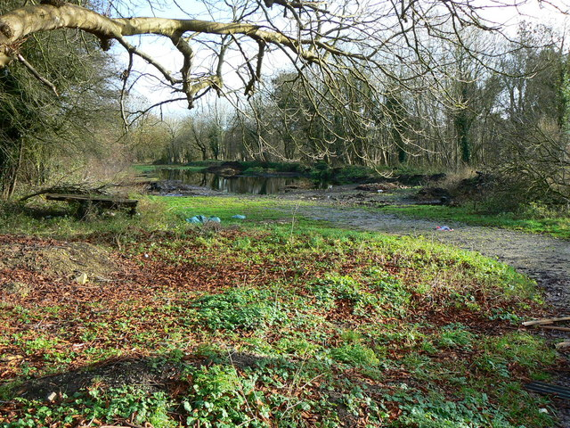 Site of Hannington Station, Swindon This was once one of the handful of stations on the Swindon and Highworth Light Railway. The S&HLR company was taken over by the GWR before it actually managed to runs any trains of its own. for more about the line.